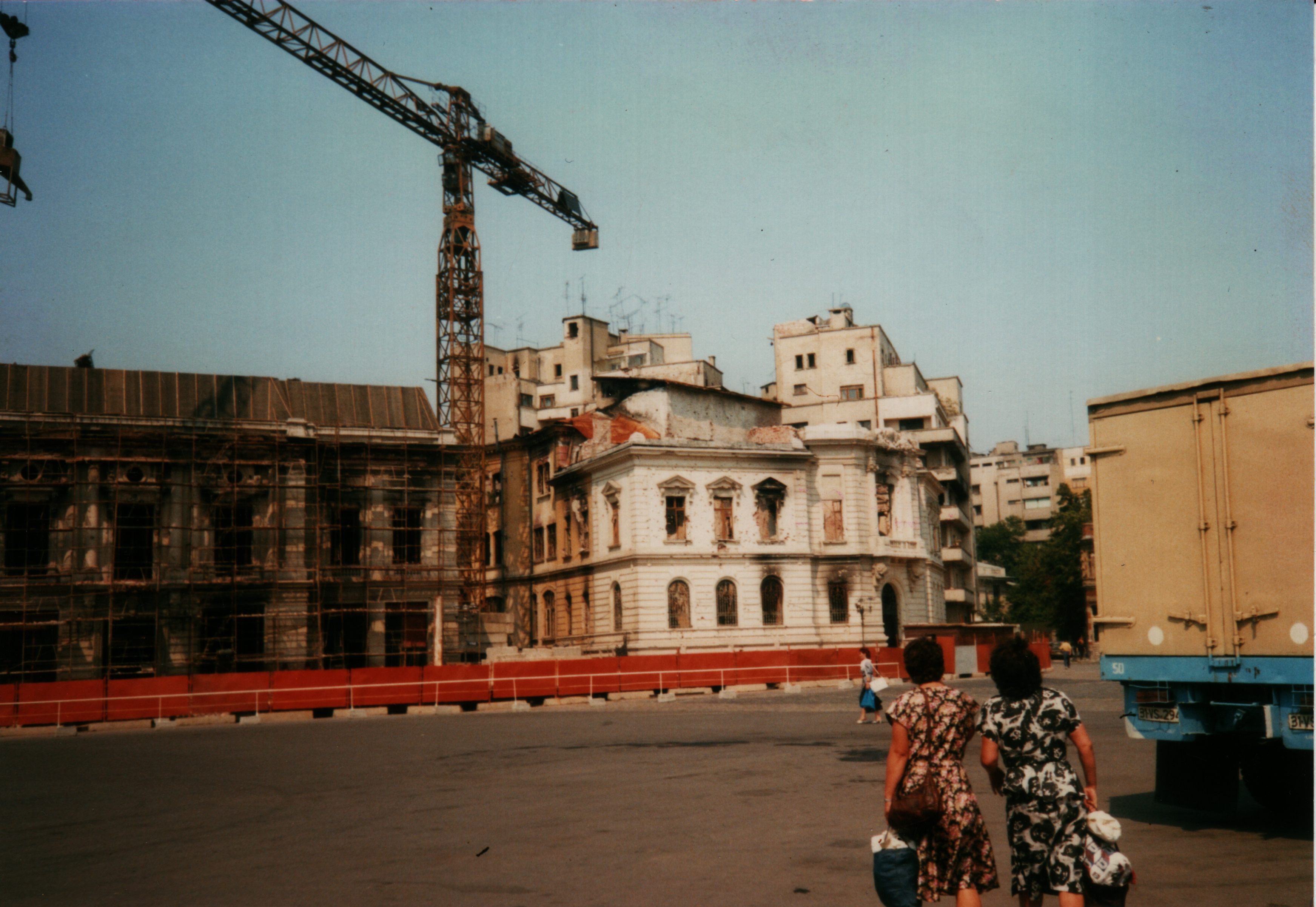 Nothern edge of Revolution Square, Bucharest with buildings under repair from fire and bullet holes. The building on the left is the old library of the University of Bucharest, now (2015) reconstructed and housing the headquarters of the Fundatiunea Universitara Carol I.